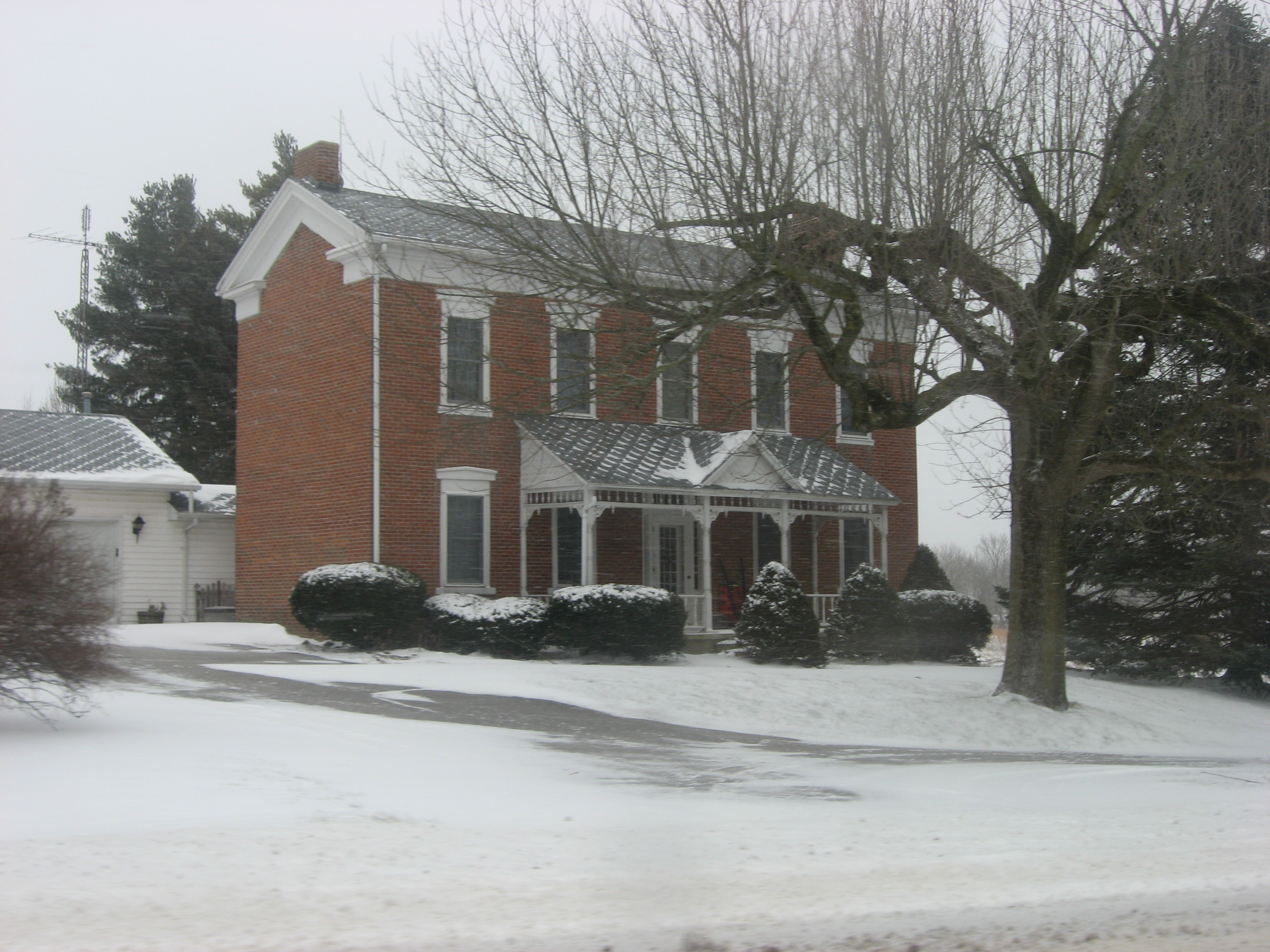 Front of the Thompson Barnett House, located along State Road 25 north of Logansport in Clay Township, Cass County, Indiana, United States. Built in 1854, it is listed on the National Register of Historic Places.